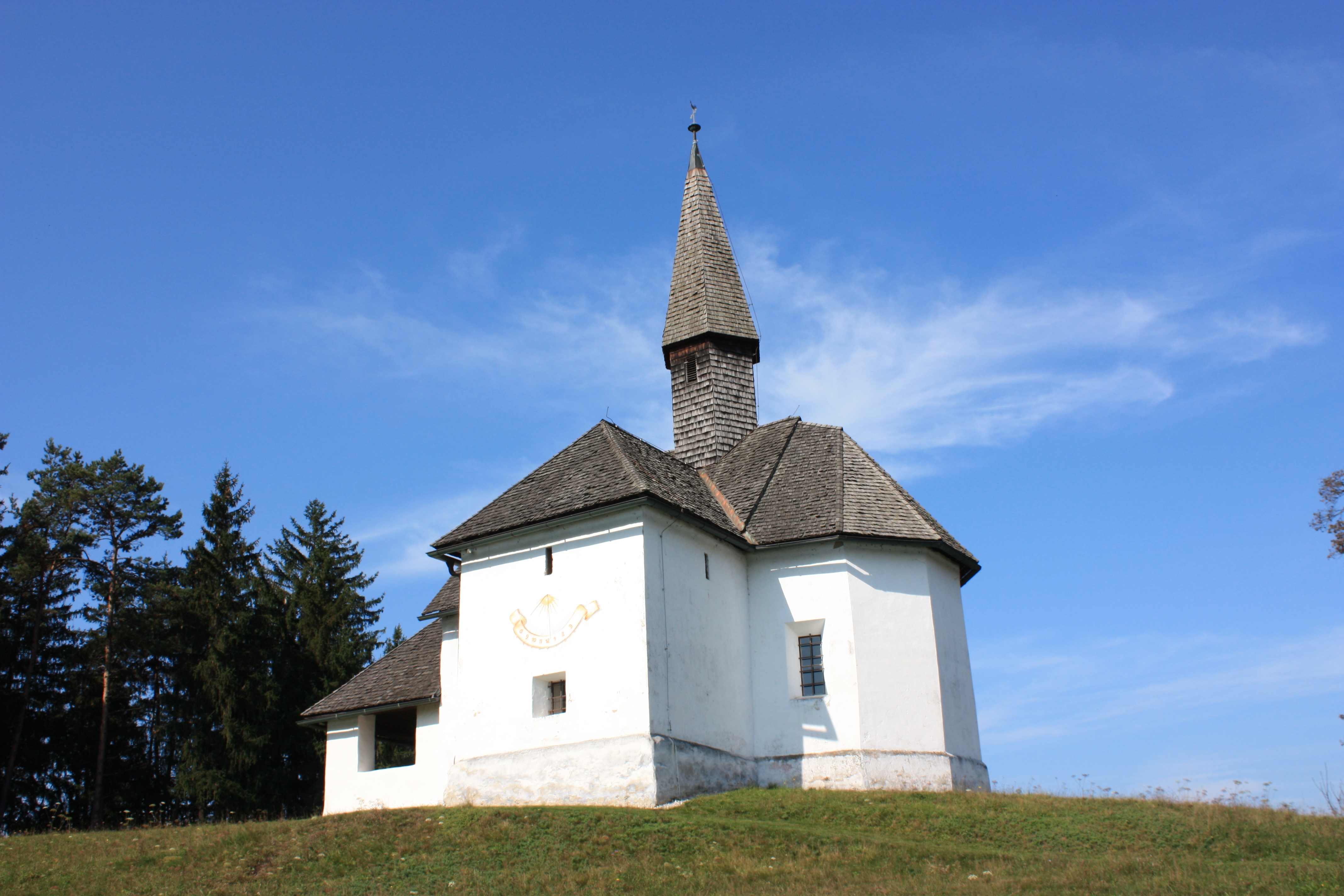 Subsidiary church - Saint Ulrich Locality: Humtschach/Homče Community:Eberndorf